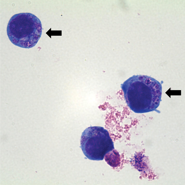 Light micrograph of Anaplasma phagocytophilum cultured in human promyelocytic cell line HL-60, showing A. phagocytophilum morulae as basophilic and intracytoplasmic inclusions (arrows). Wright–Giemsa stain, original magnification x1,000.